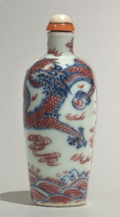 Self made GFDL